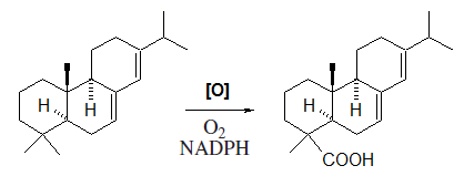 Abietic acid biosynthesis from (-)-abietadiene (Catalized by abietadiene oxidase)